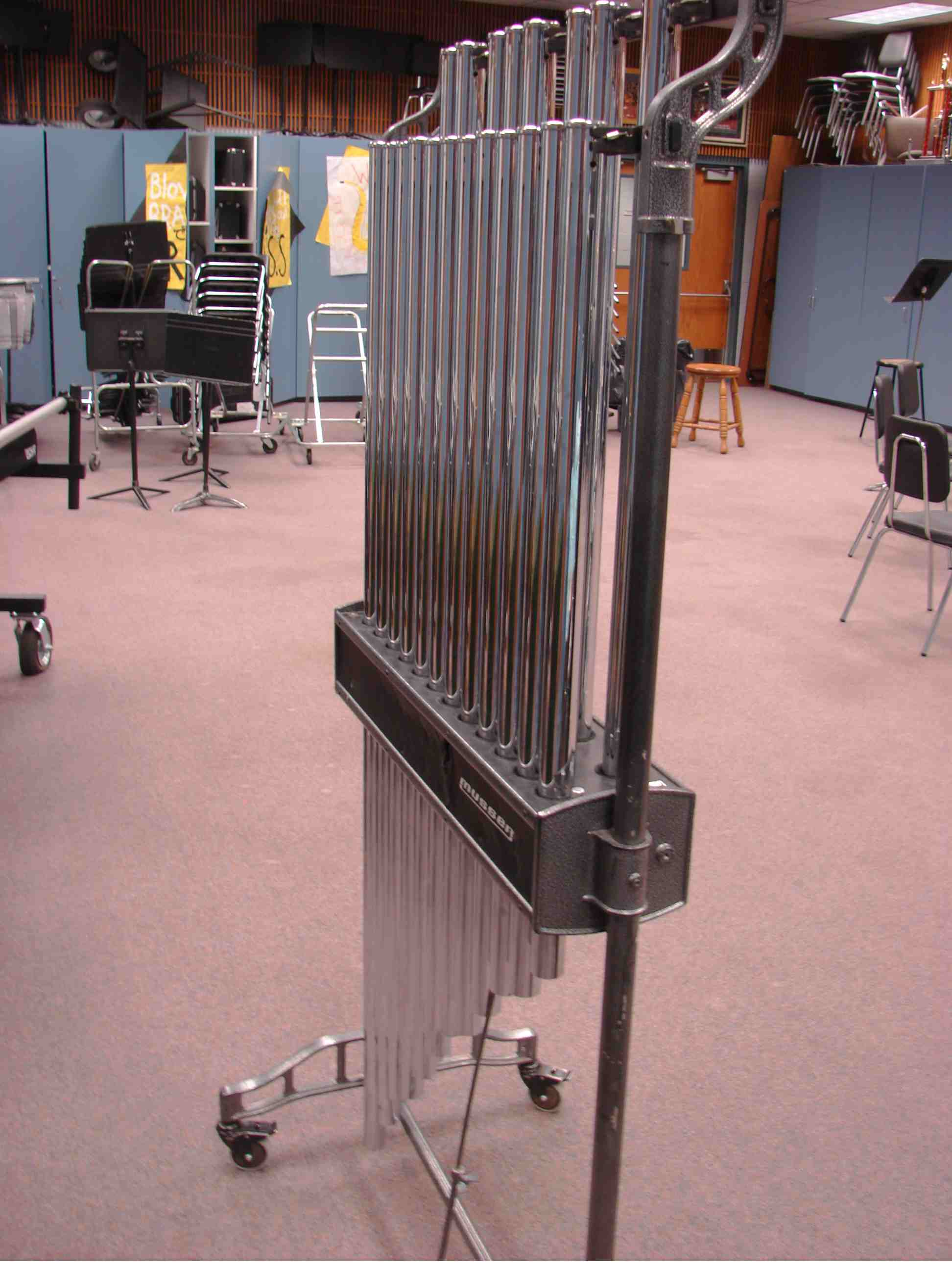 A set of tubular bells